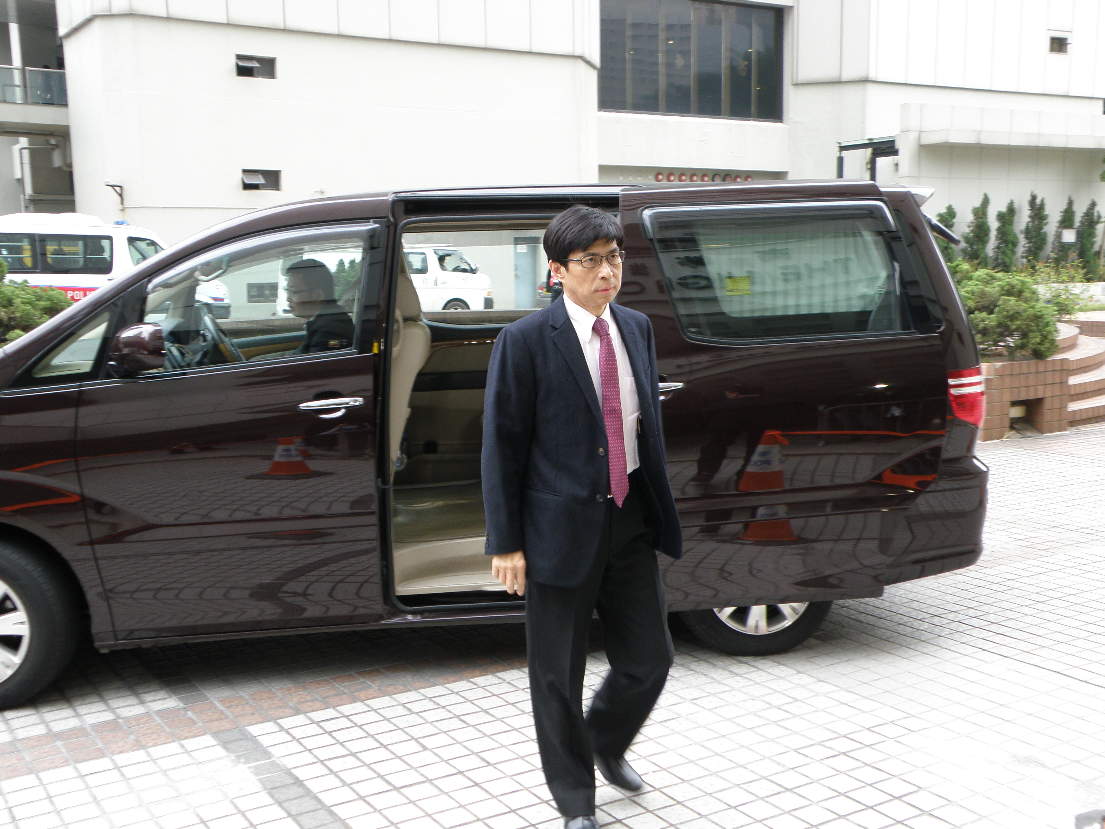 Thomas Chan Kui-yuen, former executive director of Sun Hung Kai Properties in Hong Kong.